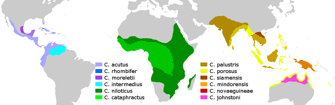 World distribution of species within genus Crocodylus: Left: Crocodylus acutus Crocodylus rhombifer Crocodylus moreletii Crocodylus intermedius Crocodylus niloticus Crocodylus cataphractus = Mecistops cataphractus Right: Crocodylus palustris Crocodylus porosus Crocodylus siamensis Crocodylus mindorensis Crocodylus novaeguineae Crocodylus johnsoni but not: Crocodylus raninus Crocodylus suchus